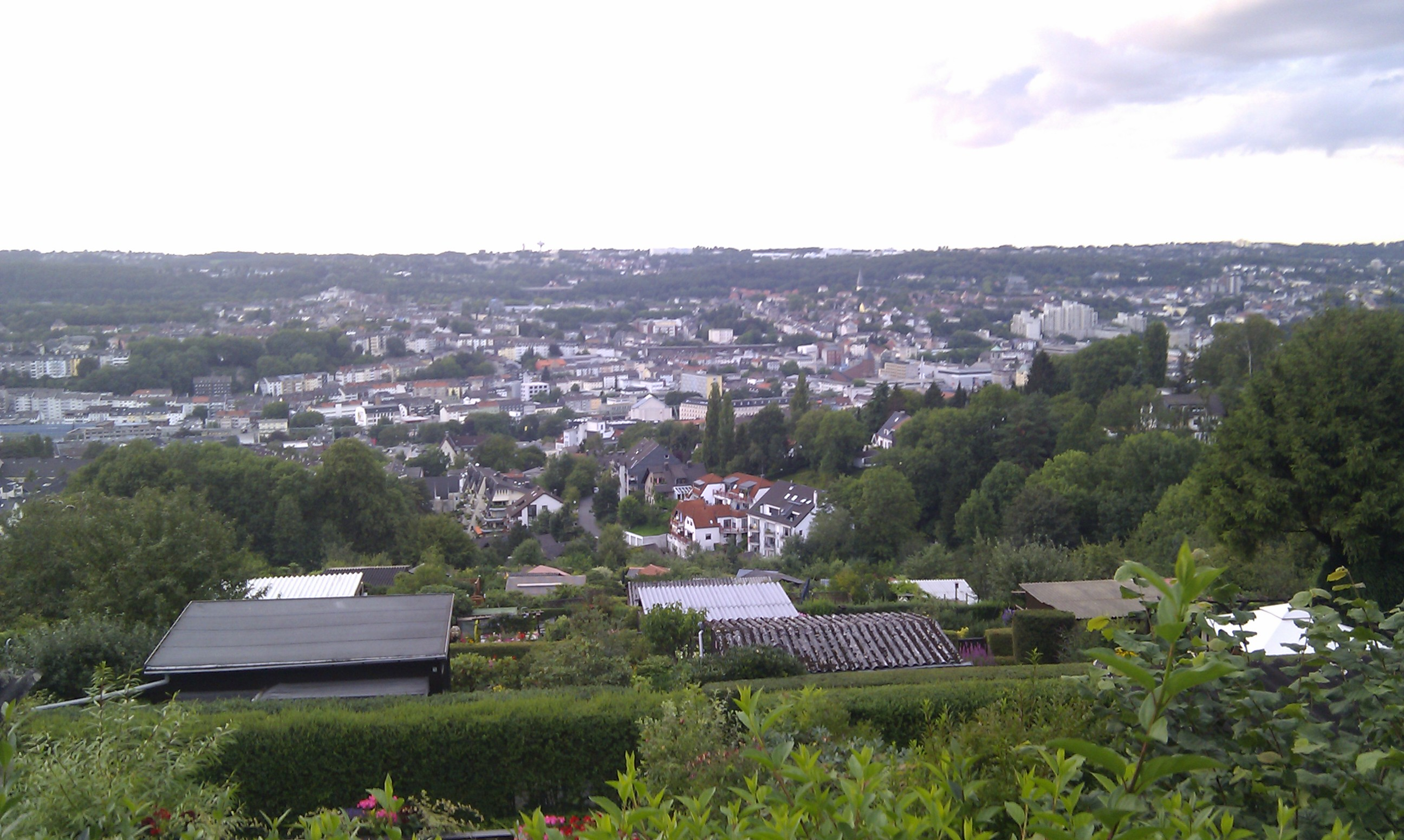 View at Wuppertal-Barmen